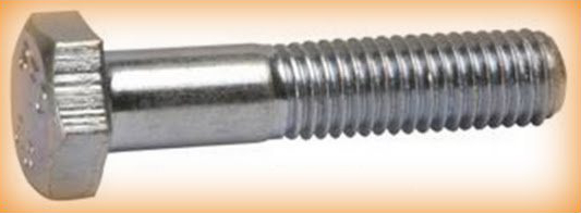 ARFISA Representaciones, Scp Tornillería Normas Din y Bajo Plano o Muestra